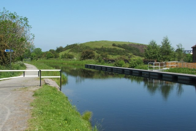 The Forth and Clyde Canal at Bonnybridge This photo was taken from where the main road crosses the canal. The hill in the background, with a trig point on it, is Cowden Hill. Travelling along the canal in the direction the photographer was facing, it is two miles to the Falkirk Wheel, five and a half to Falkirk, and six to the canal's eastern end at Carron Sea Lock (where a short stretch of the River Carron links it to the River Forth). Travelling along the canal in the opposite direction, it is thirteen miles from this spot to Kirkintilloch, and thirty miles to the canal's western end, where it meets the River Clyde, at Bowling.